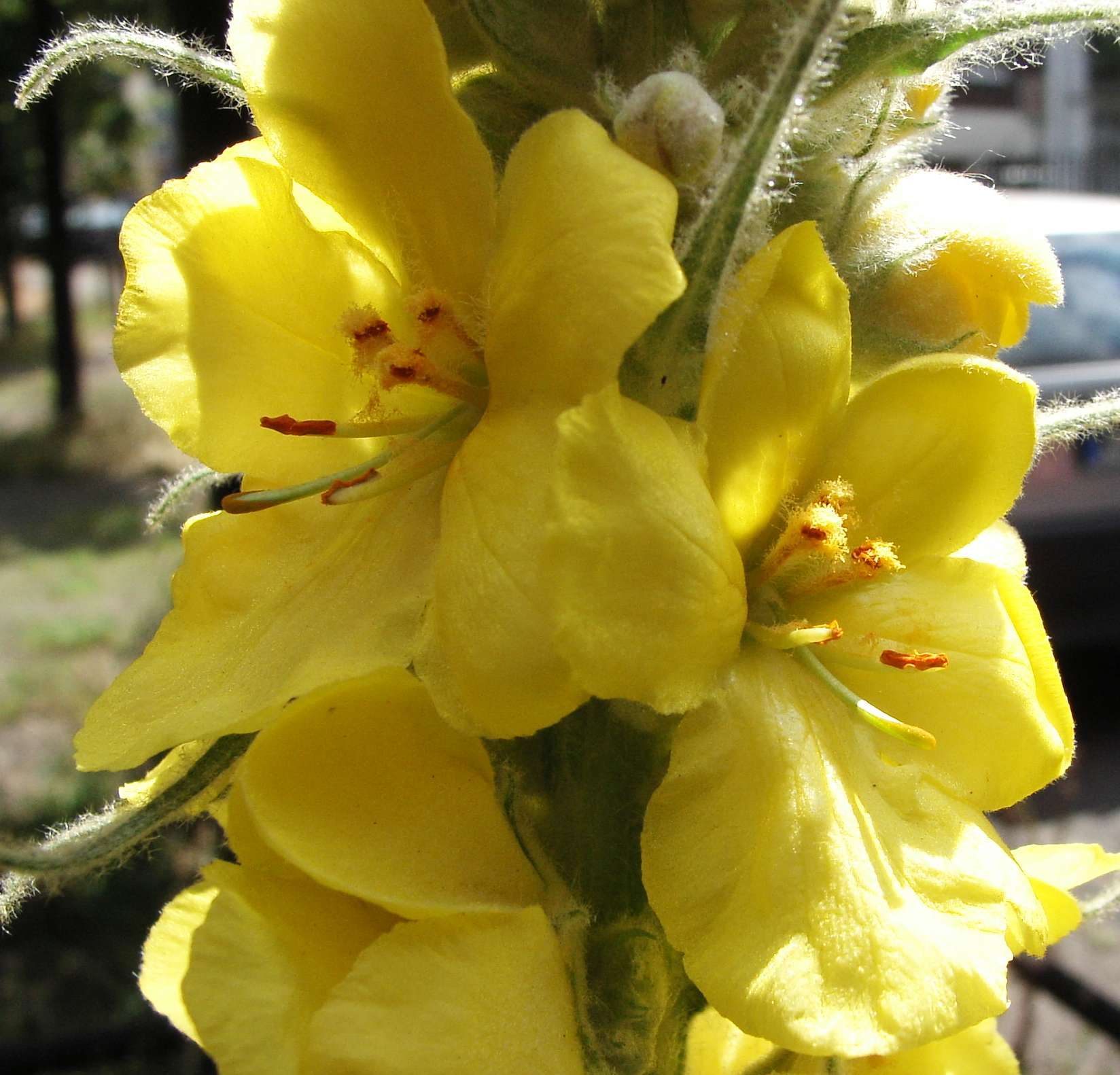 Verbascum densiflorum, in Cologne, Germany. Closeup of flower.